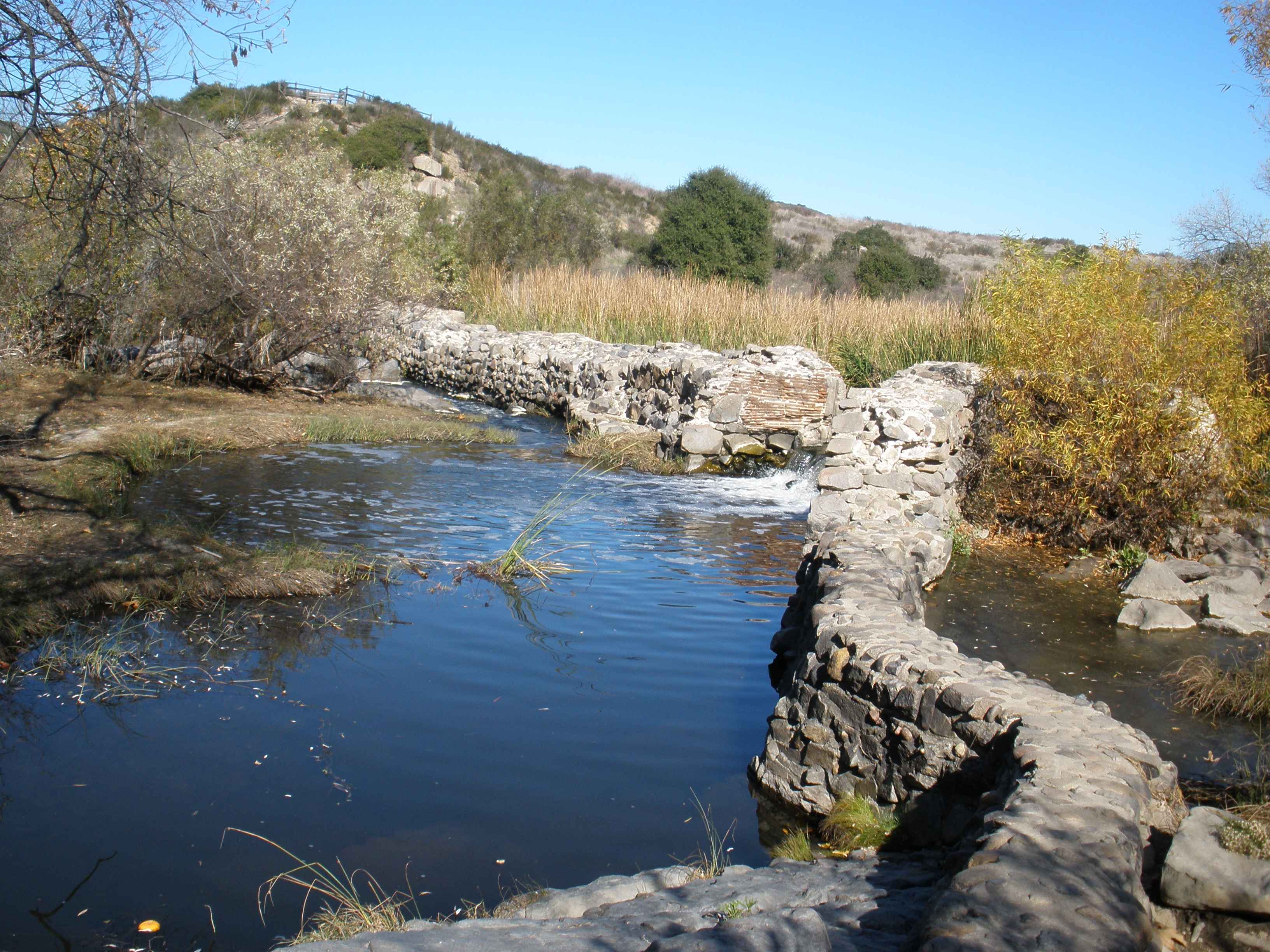 Old Mission Dam, also called Padre Dam, was built about 200 years ago by the Kumeyaay Indians under the direction of the missionaries at Mission San Diego de Alcala.